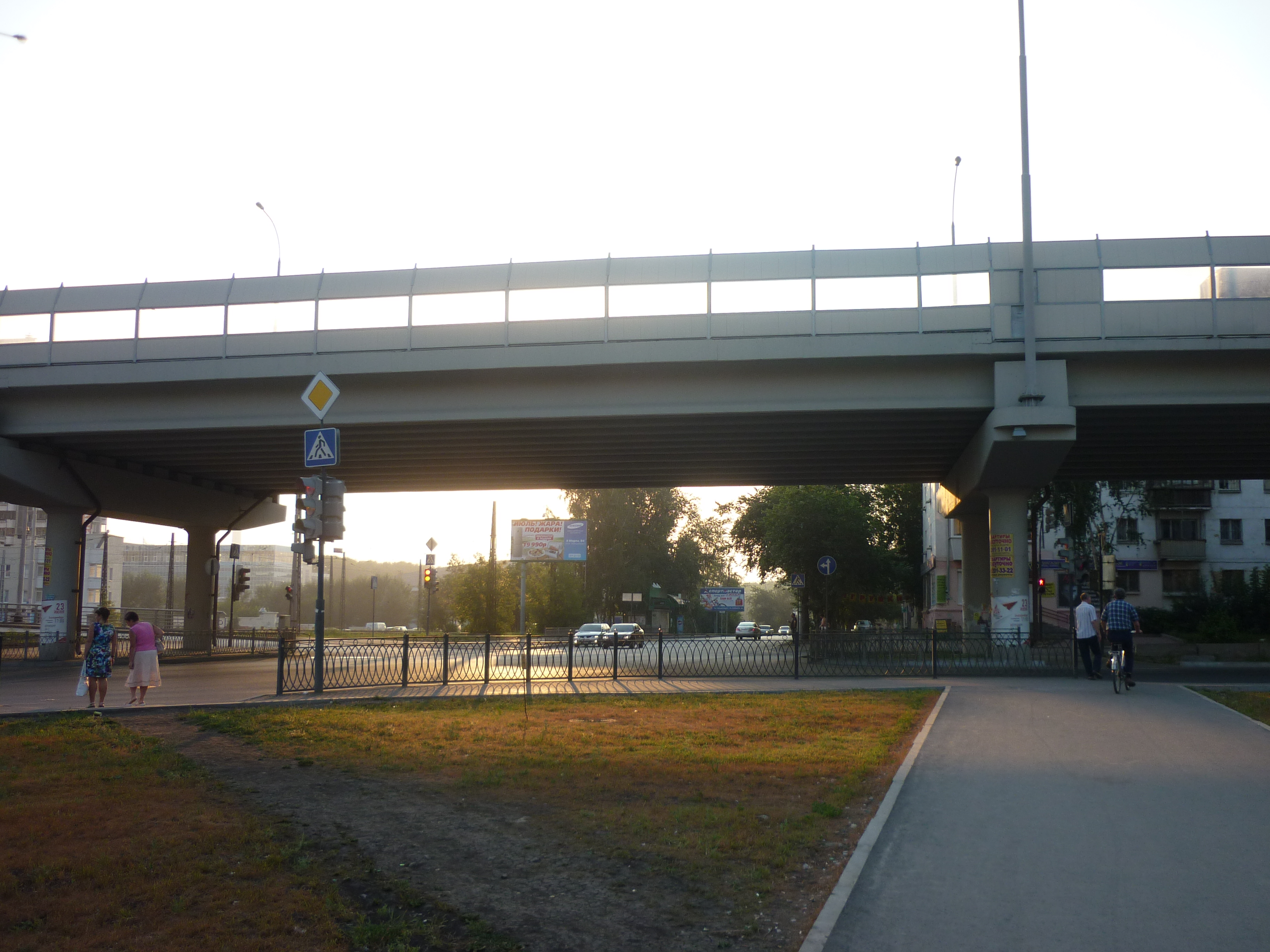 View at the beginning of Bolshakova st. from Yasnaya st. Yekaterinburg